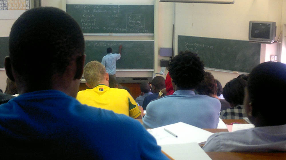 Statistics lecture at UKZN